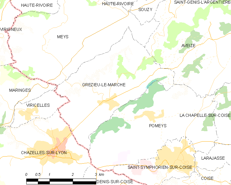 Map of French municipality